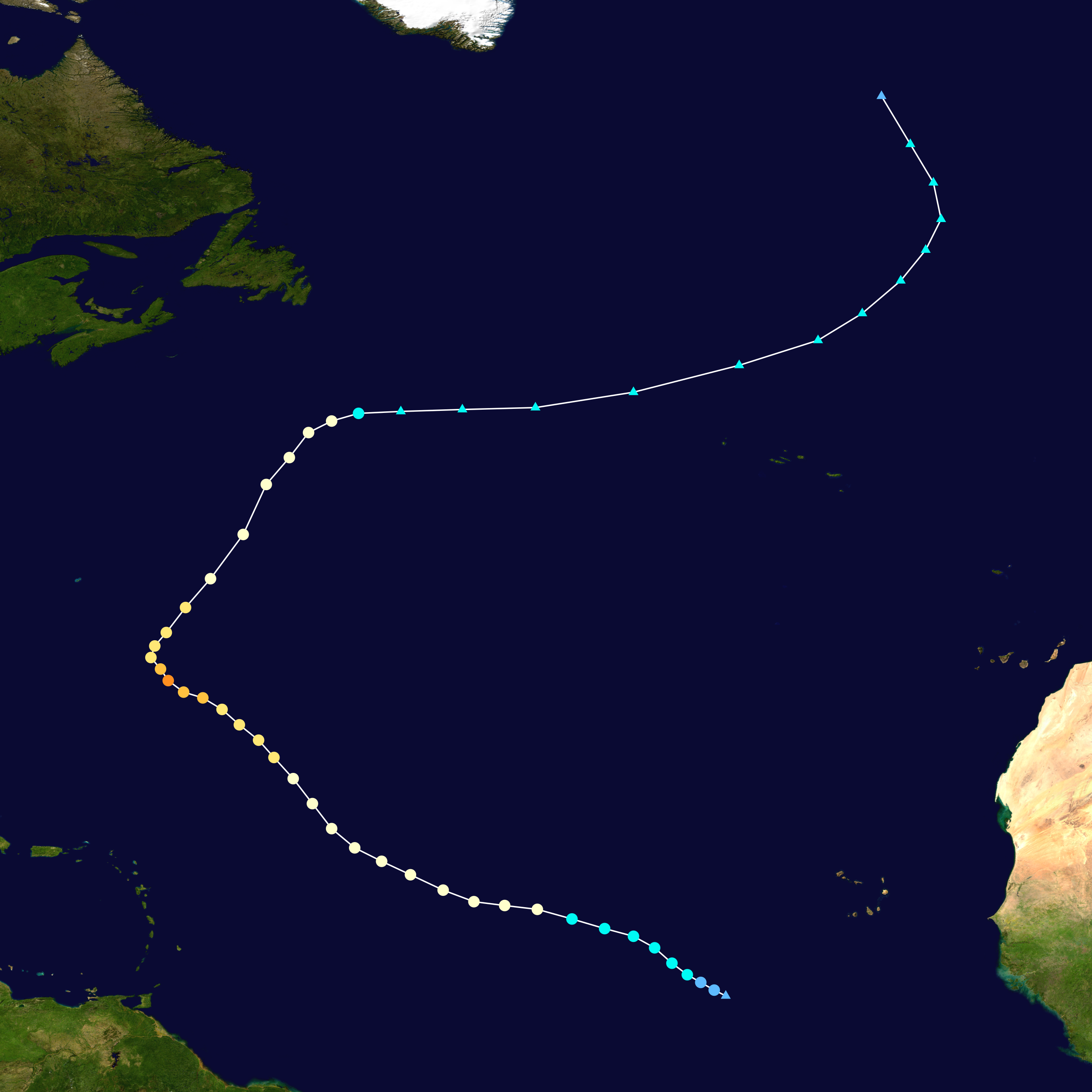 Track map of Hurricane Danielle of the 2010 Atlantic hurricane season. The points show the location of the storm at 6-hour intervals. The colour represents the storm's maximum sustained wind speeds as classified in the Saffir–Simpson scale (see below), and the shape of the data points represent the nature of the storm, according to the legend below. Saffir–Simpson scale Tropical depression≤38 mph≤62 km/h Category 3111–129 mph178–208 km/h Tropical storm39–73 mph63–118 km/h Category 4130–156 mph209–251 km/h Category 174–95 mph119–153 km/h Category 5≥157 mph≥252 km/h Category 296–110 mph154–177 km/h Unknown Storm type Tropical cyclone Subtropical cyclone Extratropical cyclone / Remnant low / Tropical disturbance / Monsoon depression